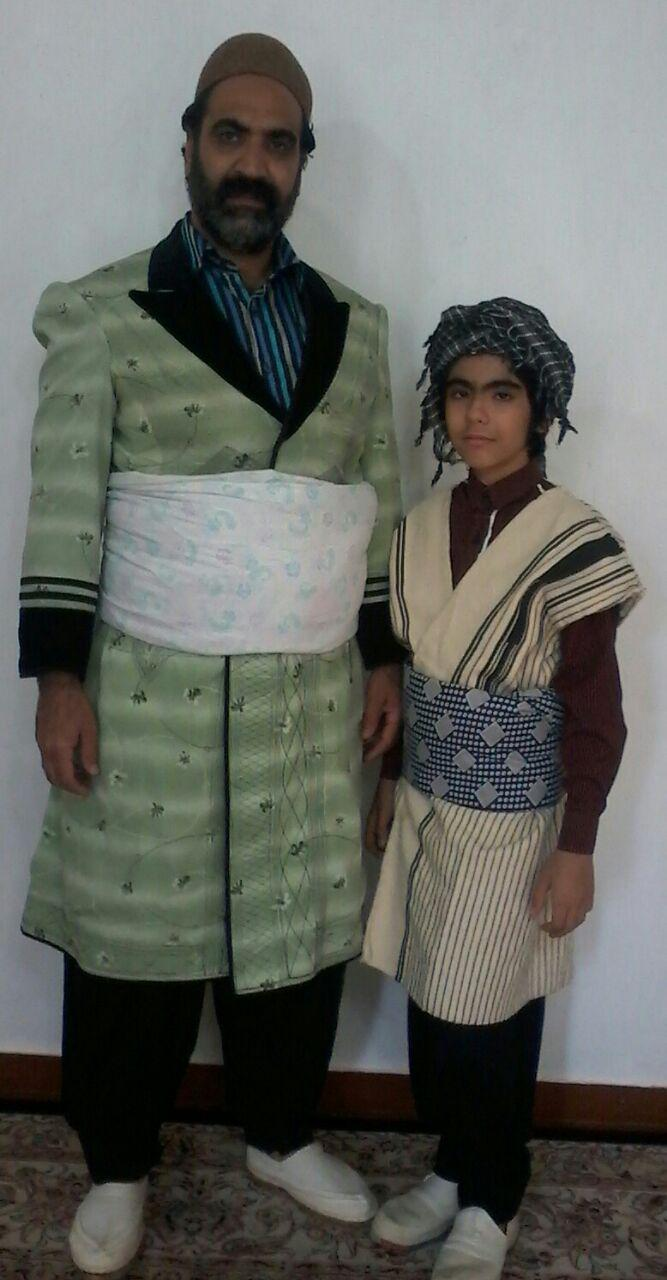 Feyli Lurish clothes